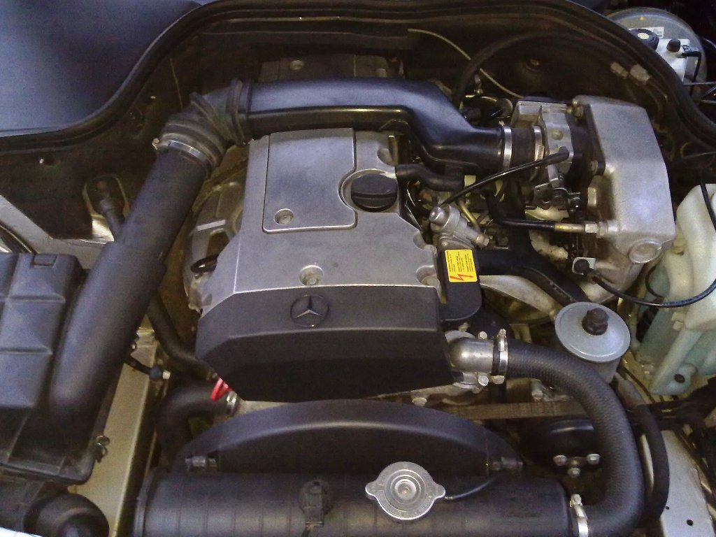 M111 E18 engine ('94 C180)